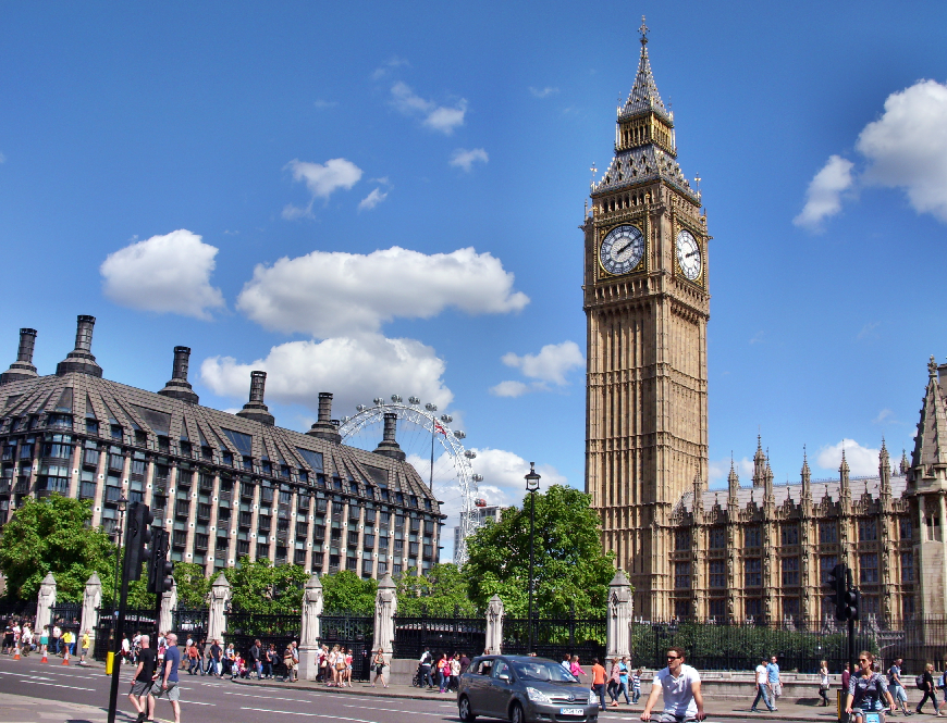 This is a view from Parliament Square, London